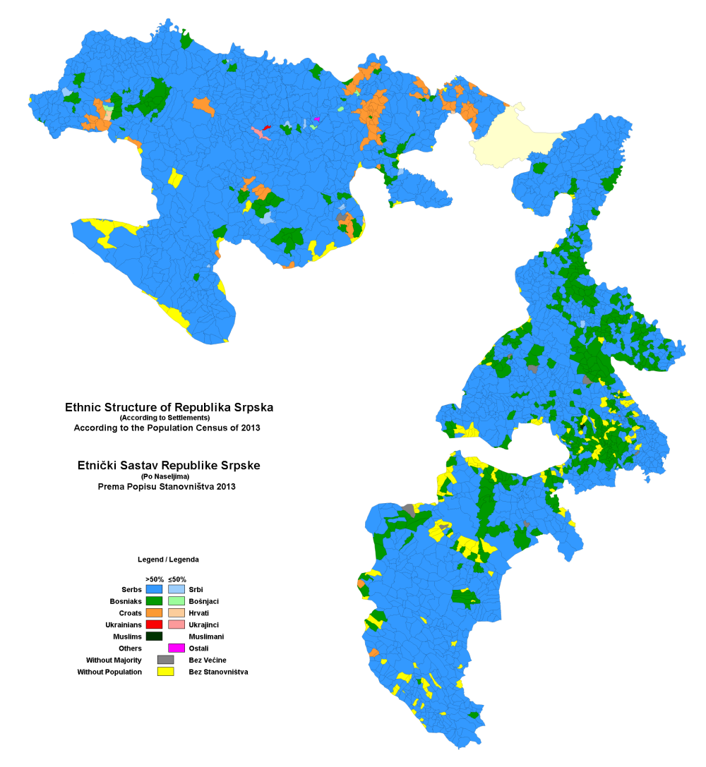 This is an ethnic map of Republika Srpska according to the controversial 2013 population census. As a disclaimer, people who live abroad were included in the results.